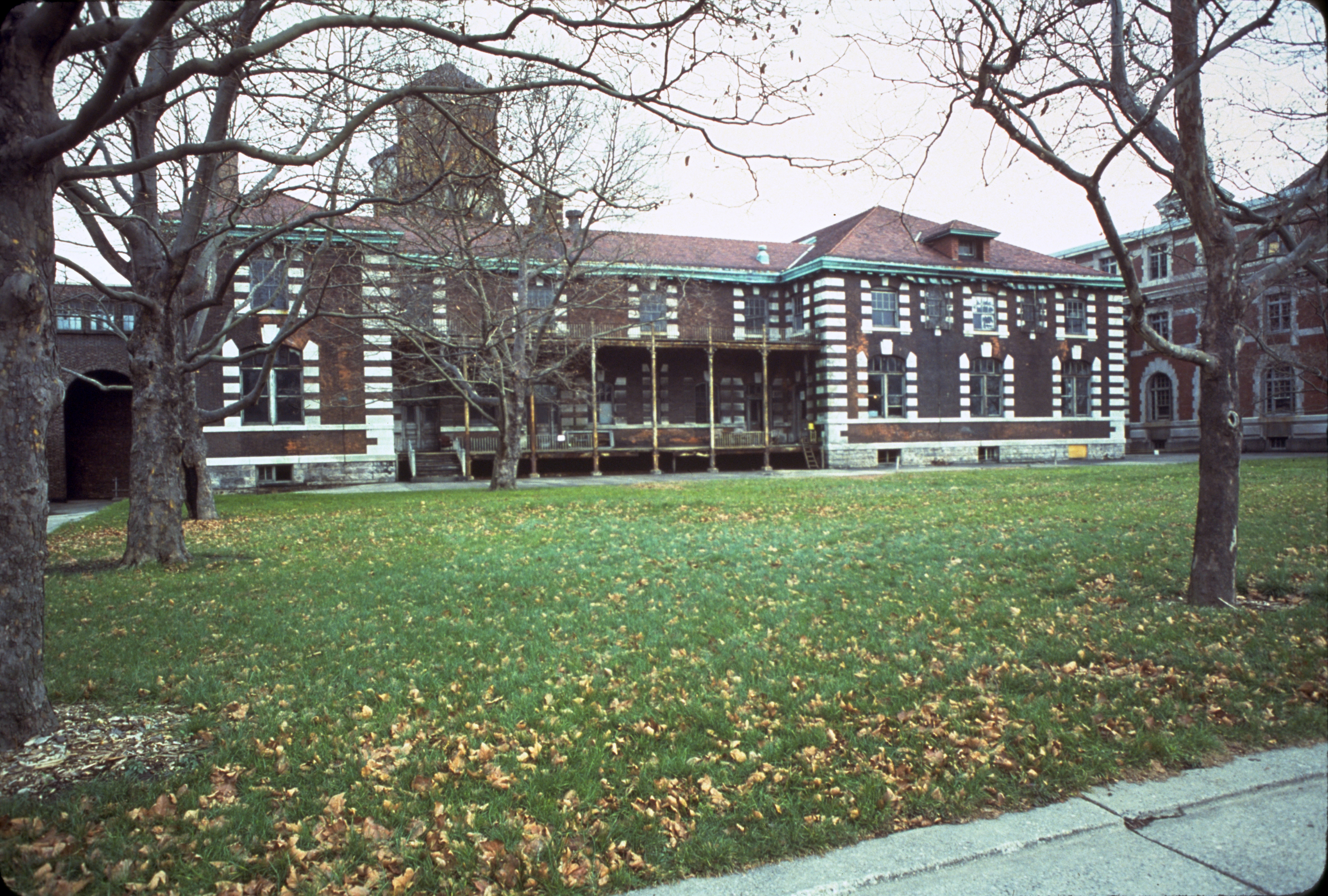 Location Ellis Island National Monument Description Opened on January 1, 1892, Ellis Island became the nation's premier federal immigration station. In operation until 1954, the station processed over 12 million immigrant steamship passengers. The main building was restored after 30 years of abandonment and opened as a museum on September 10, 1990.